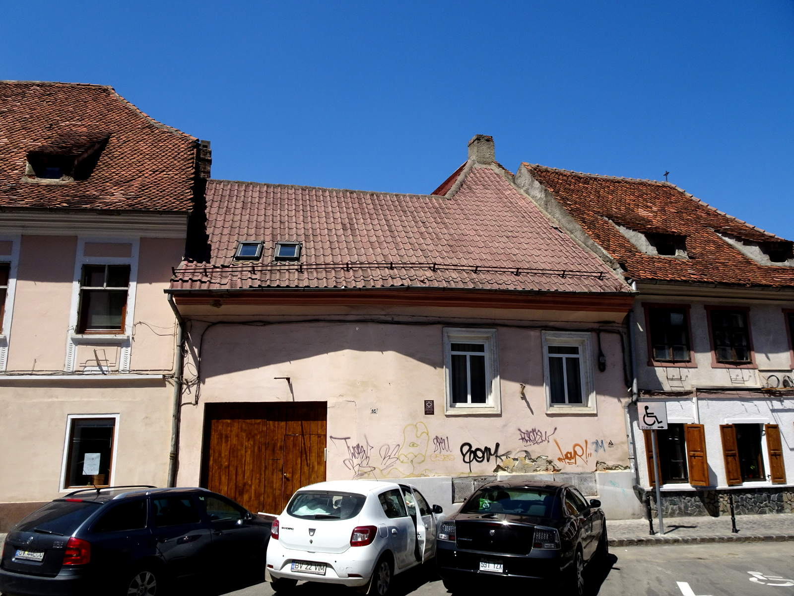 House in Bălcescu street, Brașov